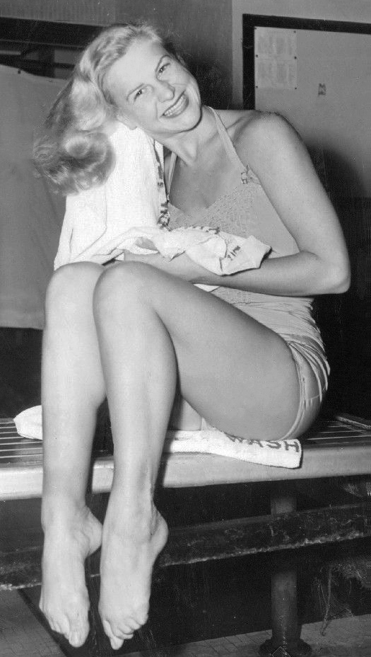 1952 Washington DC Mrs Jackie Jenson Former Olympic Diver Zoe Ann Press Photo